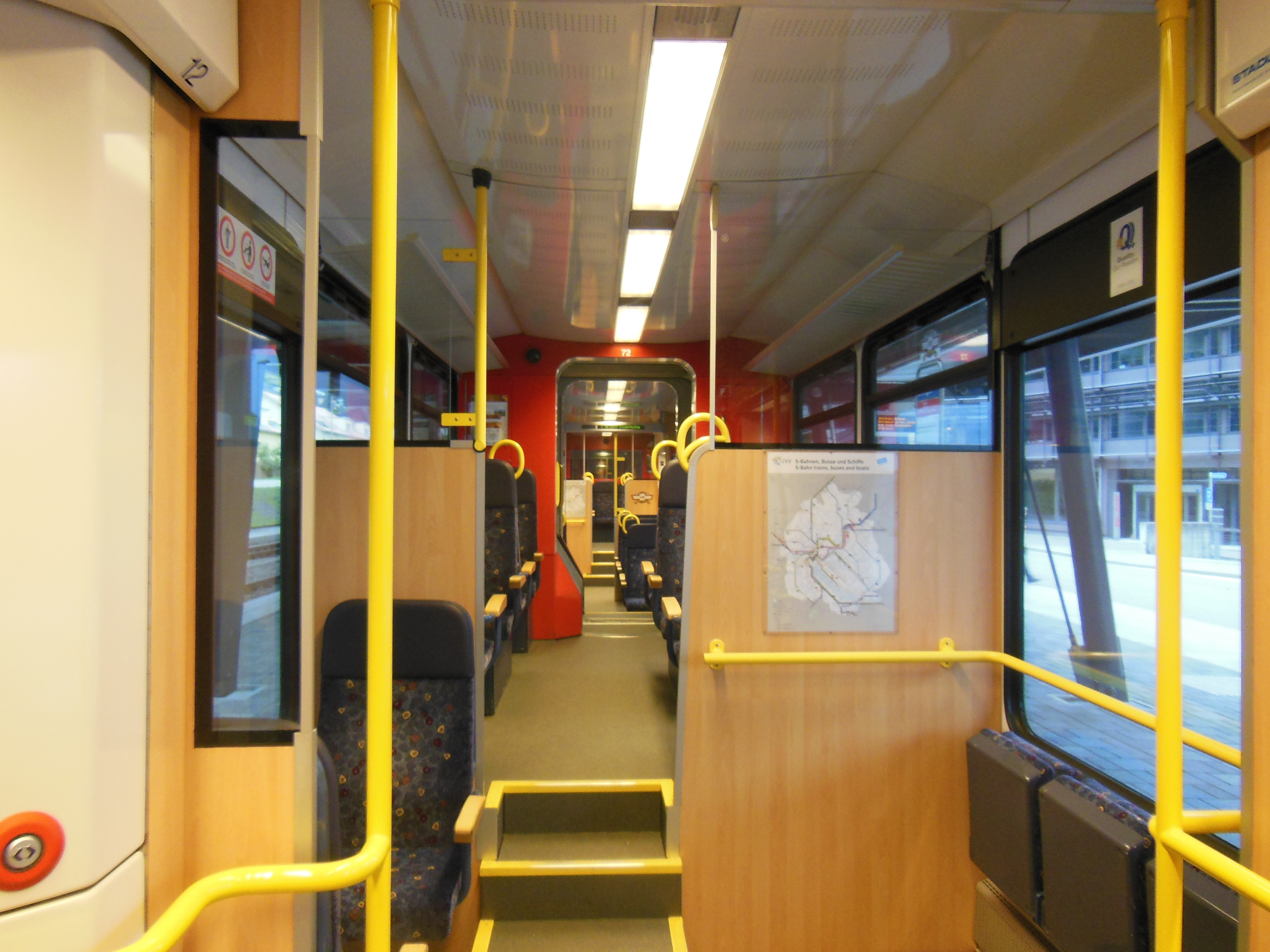 Interior of a Stadler Be 4-6 on the Forchbahn in Zürich